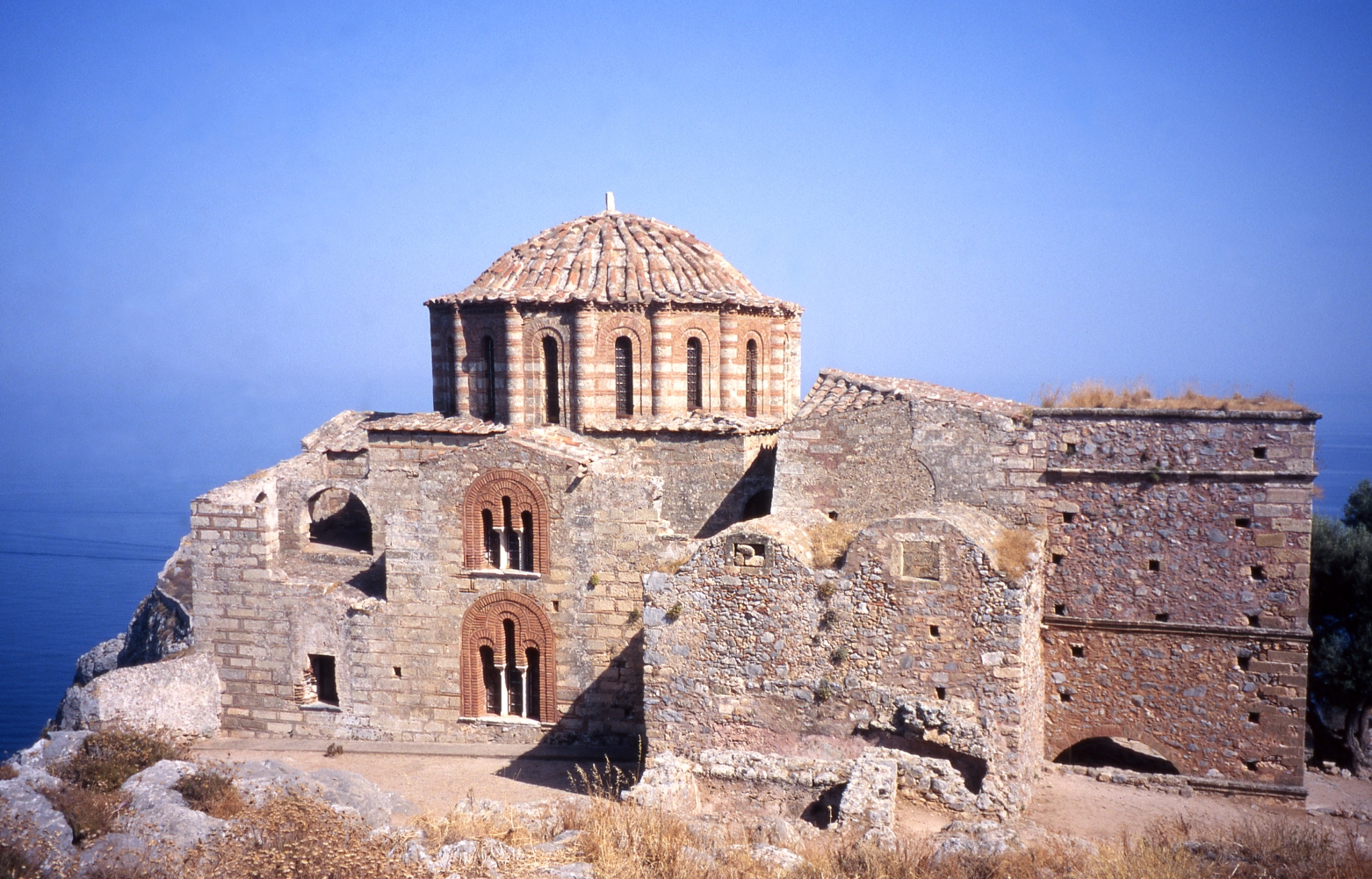 Hagia Sophia Church in Upper Town of Monemvasia